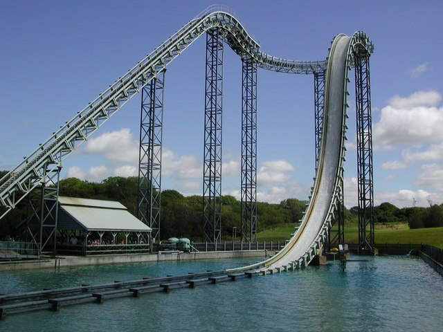 Oakwood Theme Park, Pembrokeshire Hydro